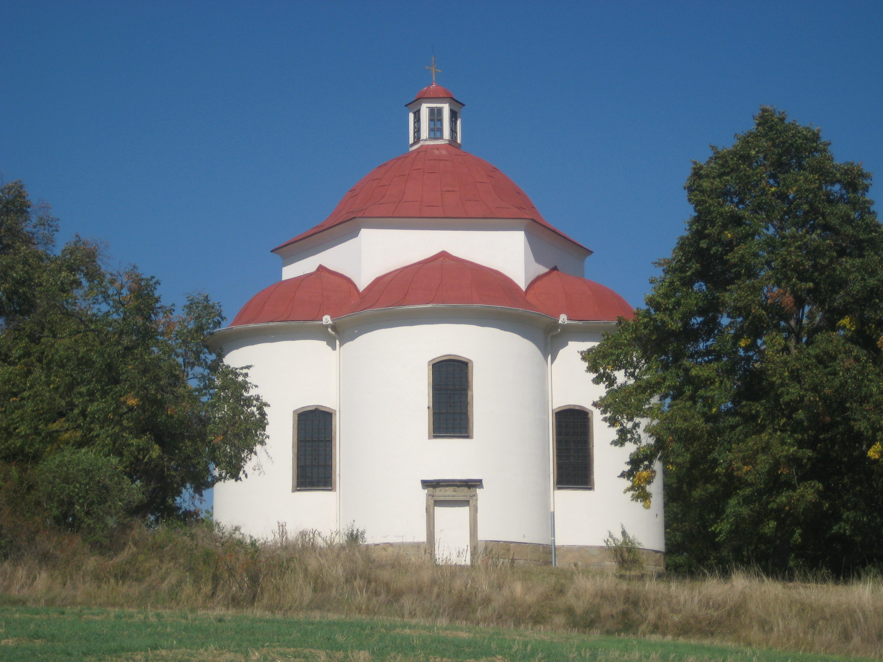 Holy Trinity Chapel in Rosice, Czech Republic, view from the south